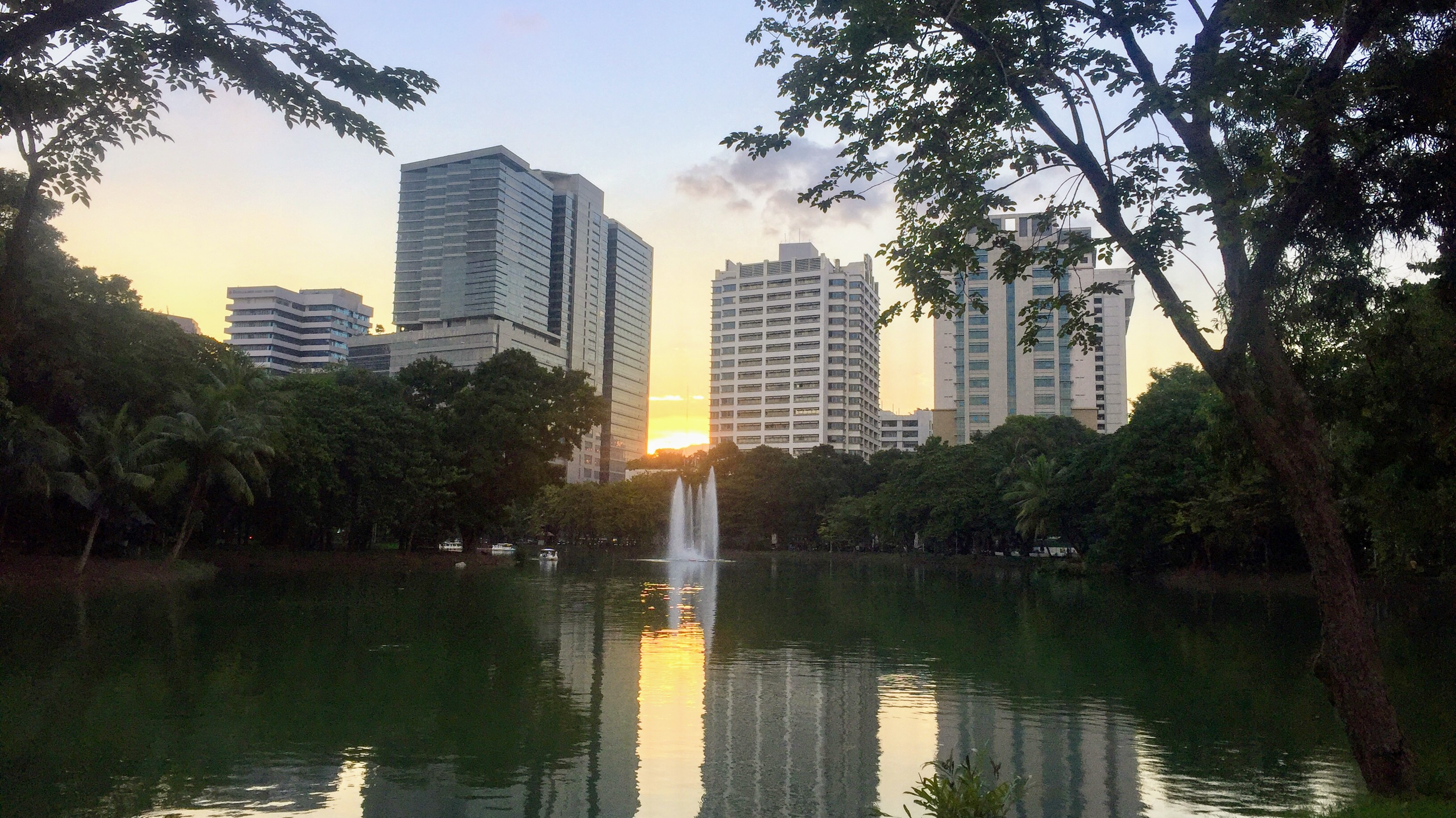 King Chulalongkorn_ Memorial Hospital and Faculty of Medicine, Chulalongkorn University situated on the east side of Henri Dunant Road next to the central area of Chulalongkorn University.